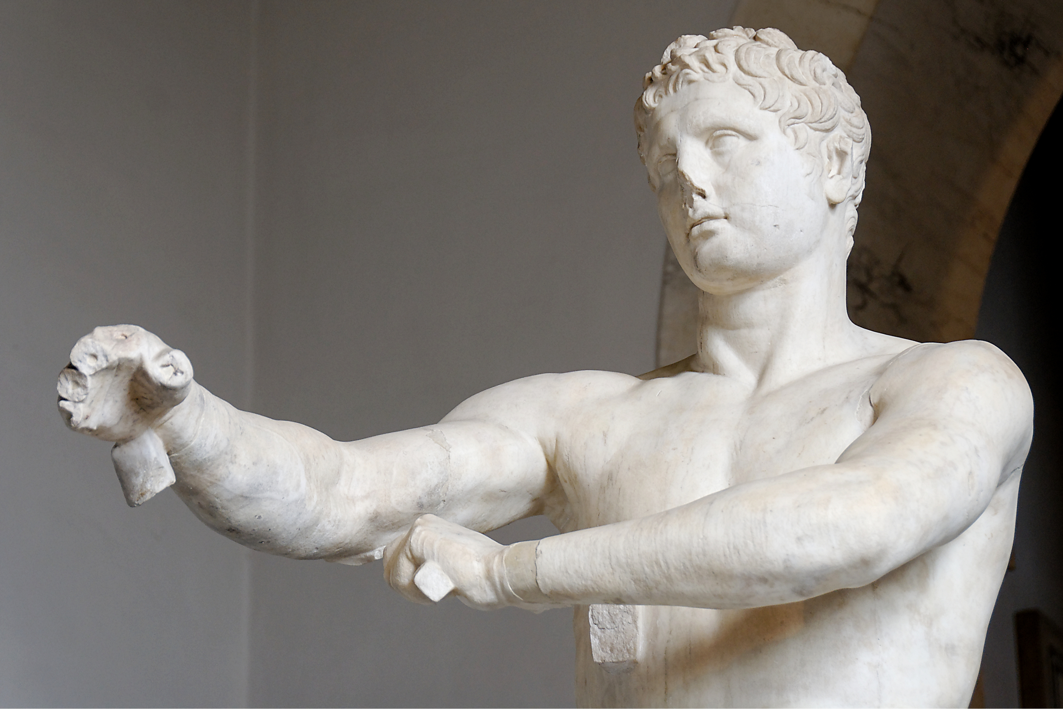 So-called “Apoxyomenos” (“the Scraper”). Marble, Roman copy of the 1st century AD after a Greek bronze original ca. 320 BC. From the Trastevere in Roma.